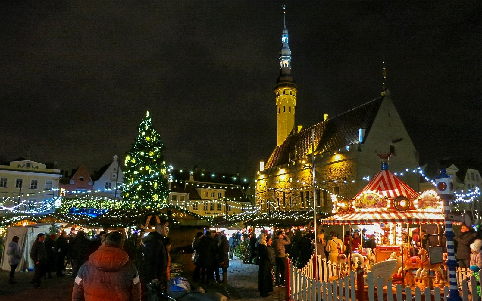 Christmas market in Town Hall Square of Tallinn Old Town. Right: Tallinn Town Hall.